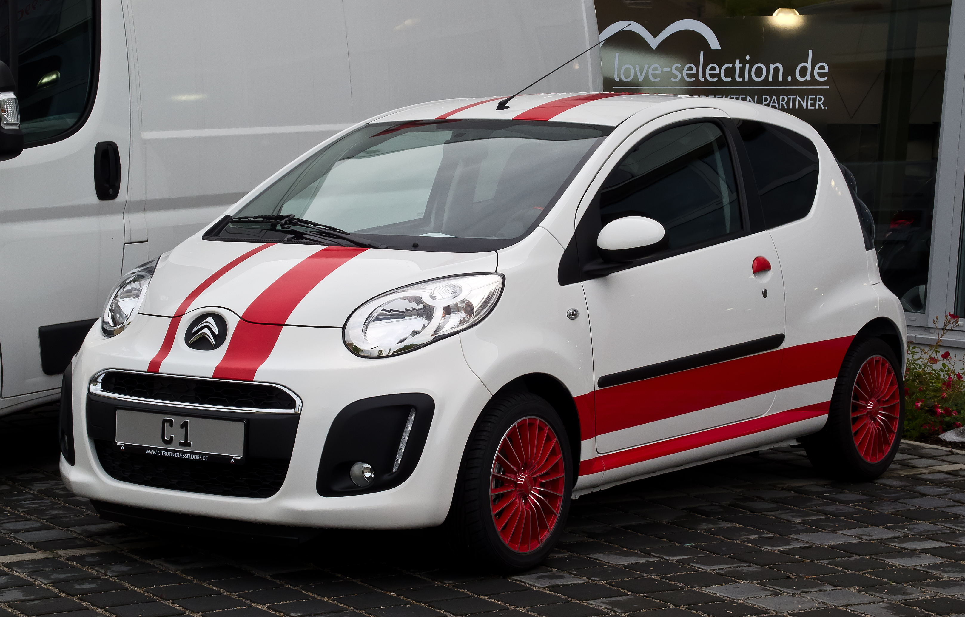 Citroën C1 1.0 Selection Sport-Paket (2. Facelift)